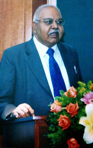 Prof. B. C. Nirmal, Head & Dean, Law School, BHU